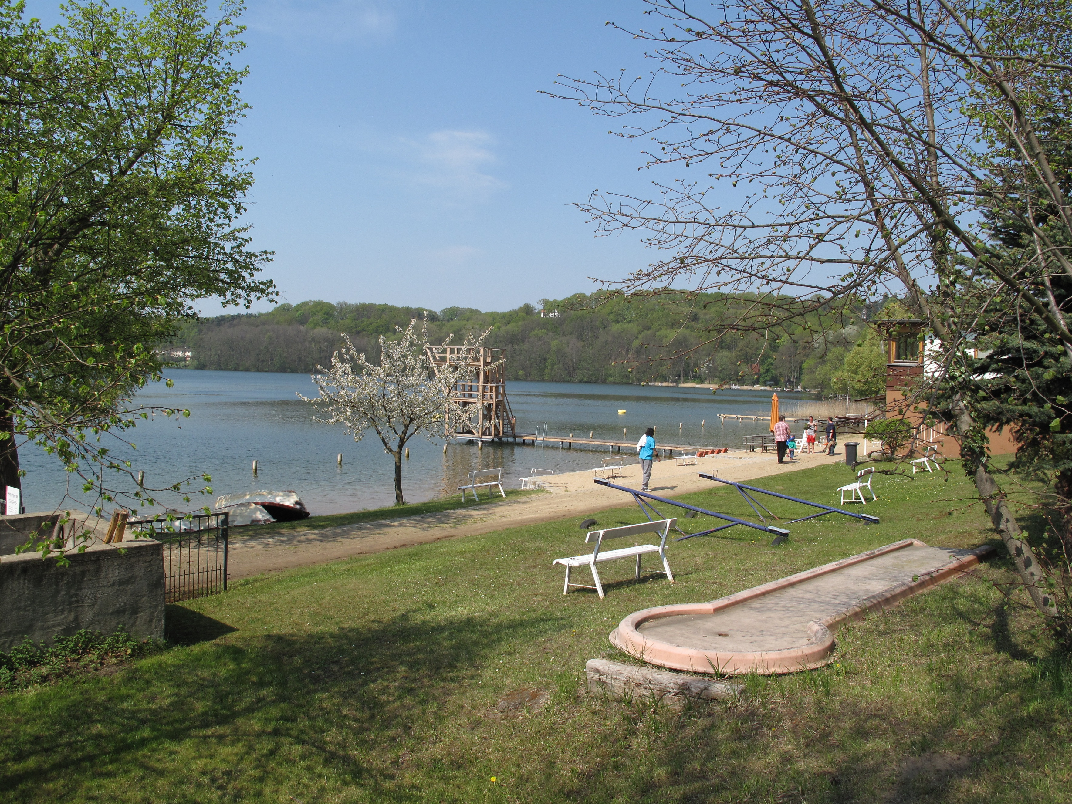 „Strandbad Buckow“ (public lido/beach) at the northeastern shore of the Schermützelsee. The Schermützelsee is a lake in Buckow, District Märkisch-Oderland, Brandenburg, Germany. The lake covers 137 hectare and is the largest water in the hill country „Märkische Schweiz“ and in the Märkische Schweiz Nature Park.